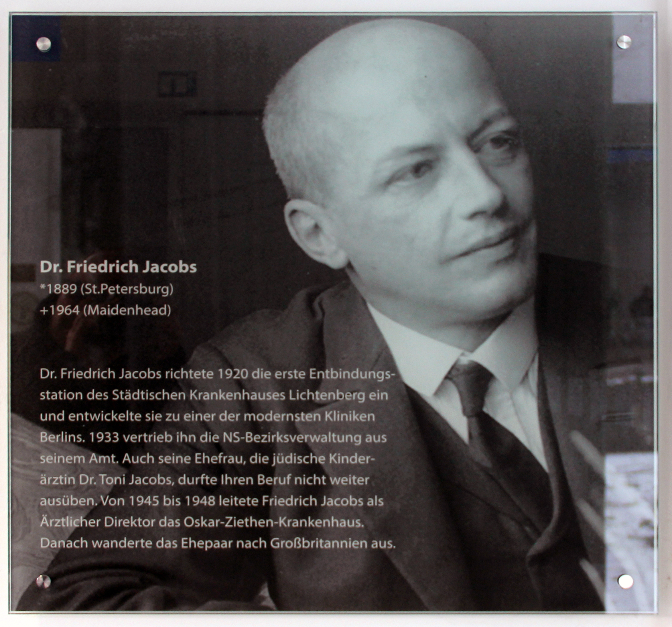 Memorial plaque, Friedrich Jacobs, Fanningerstraße 32, Berlin-Lichtenberg, Deutschland